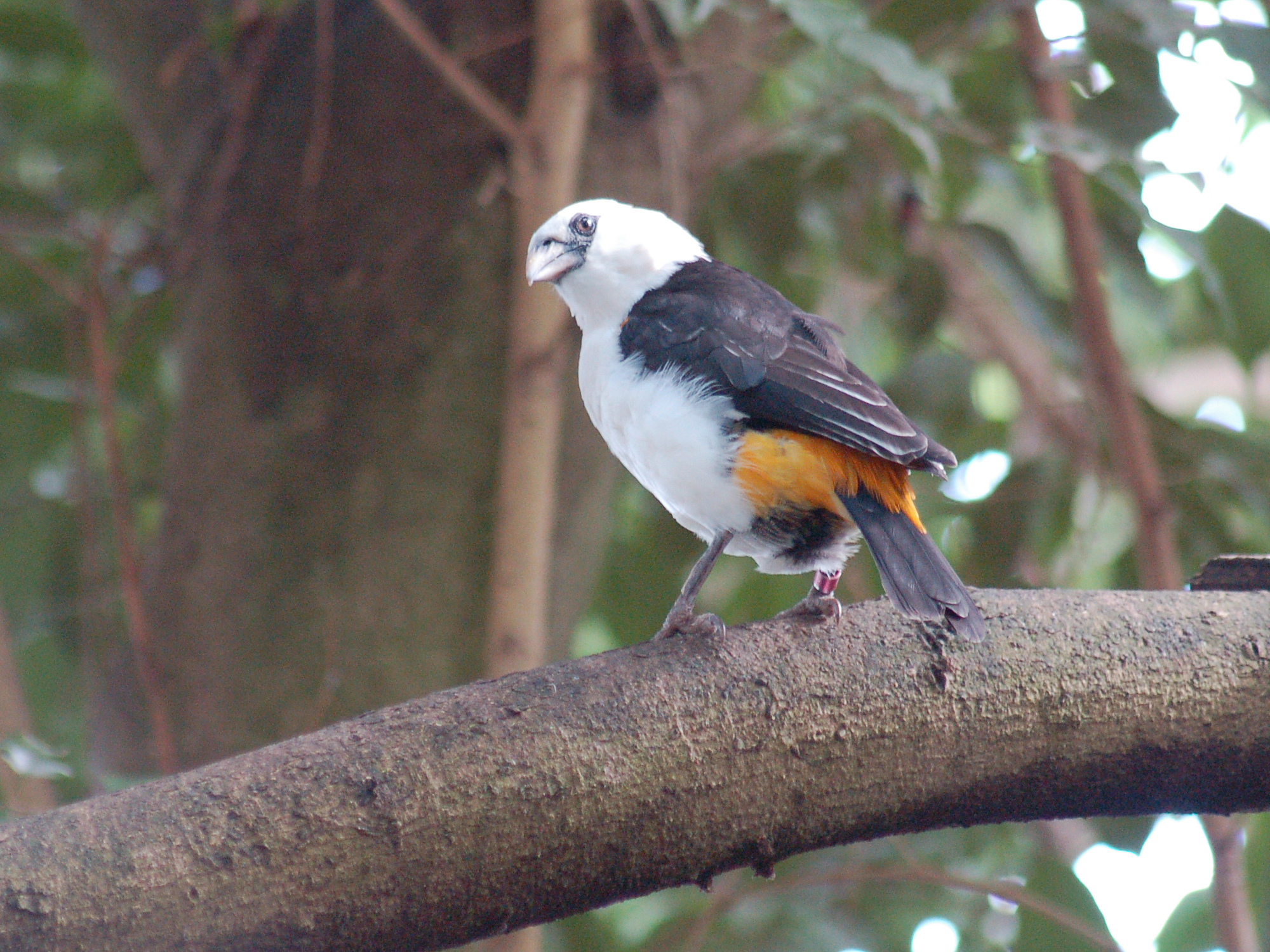 A photograph of a White-headed Buffalo-weaveren (Dinemellia_dinemelli en ). Photo taken at the National Aviary.